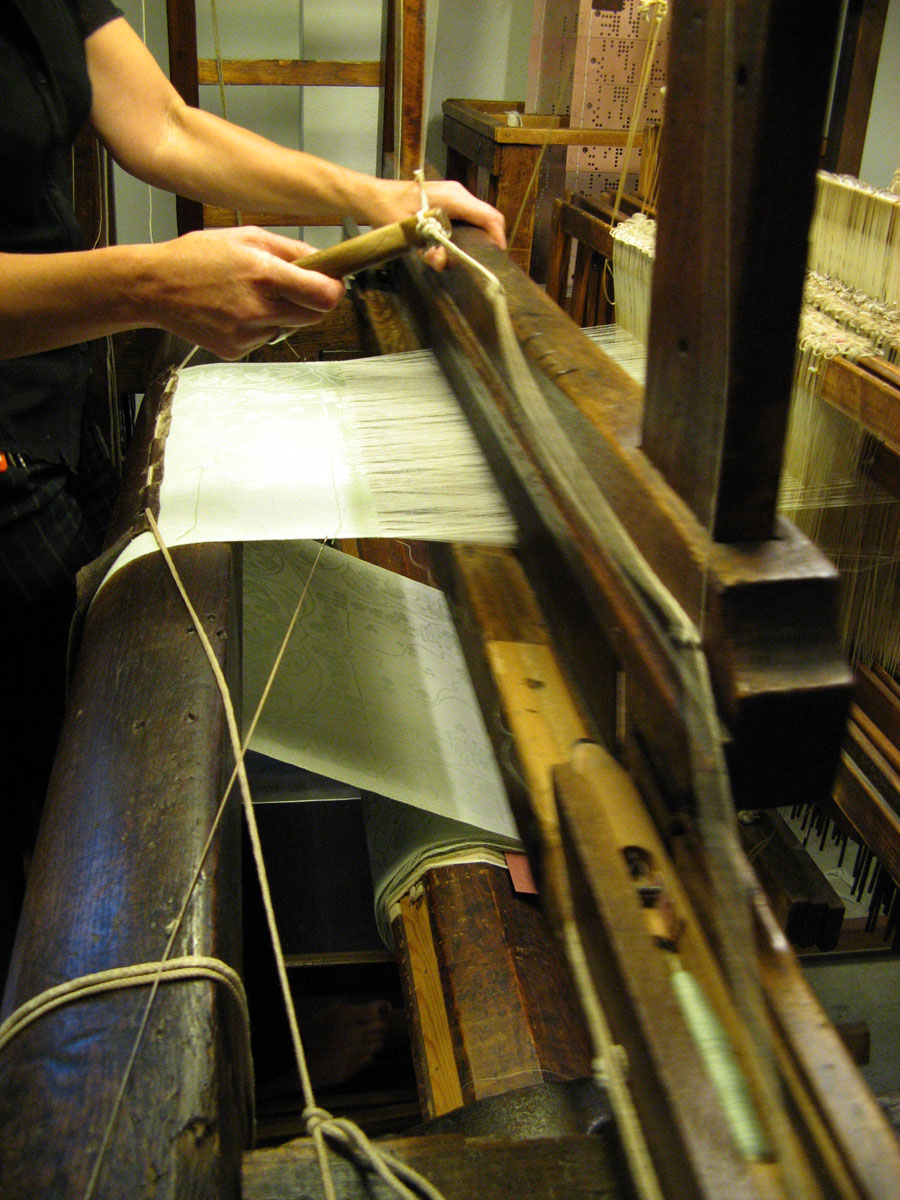 Hand-loom, Herm. Schroers (Krefeld), ca 1850-1900 (01693) detail of a hand loom and picking stick. Warning: this is not a Jacquard Loom